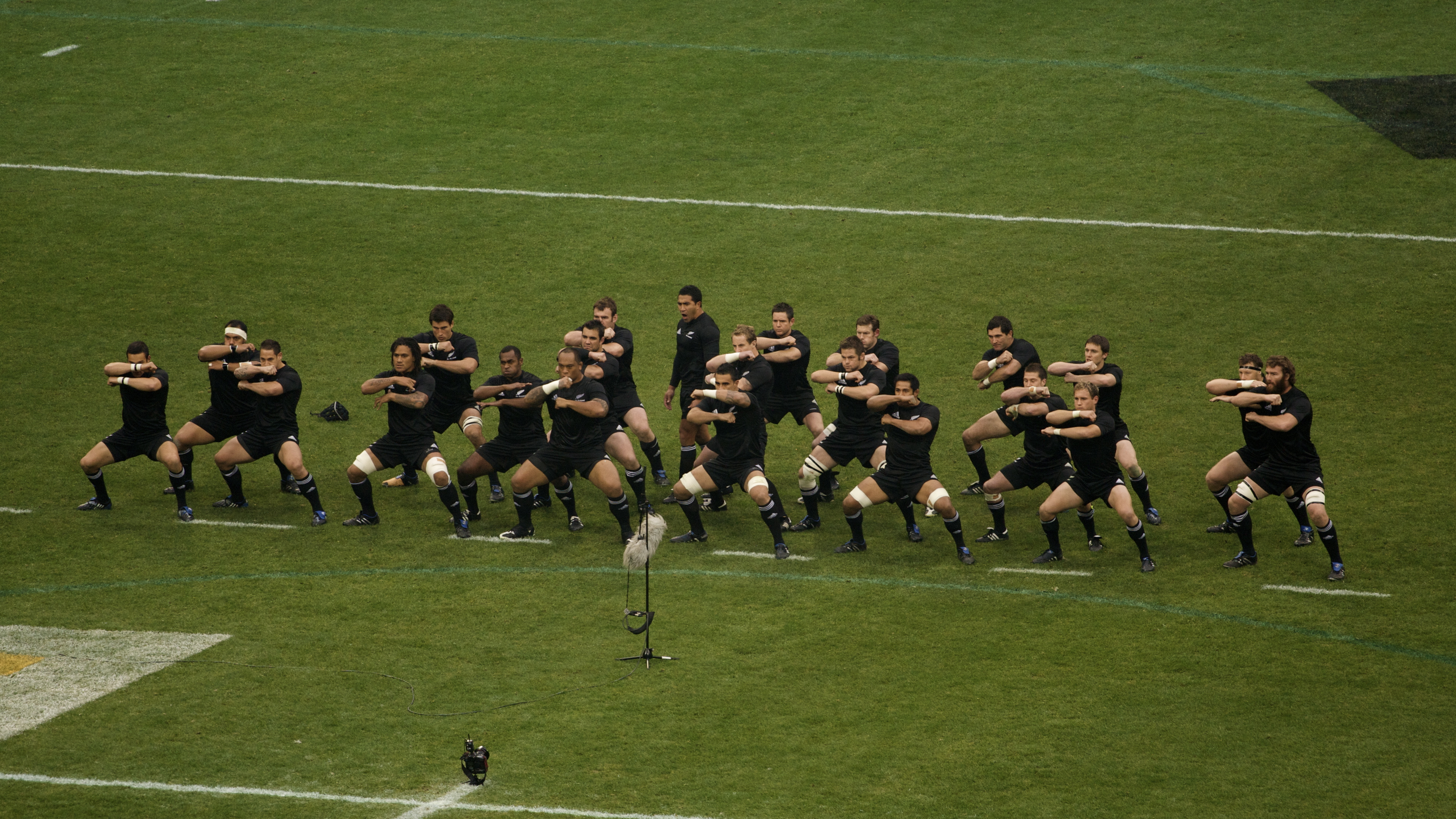 Ka Mate haka led by Mils Muliana for the All Blacks.